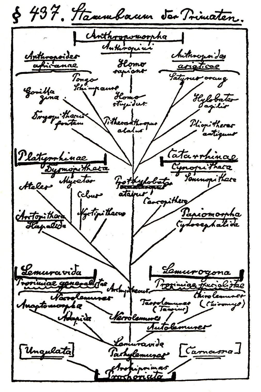 The first sketch of the famous Heackel's Tree of Life which shows "Pithecanthropus alalus" as the ancestor of Homo sapiens